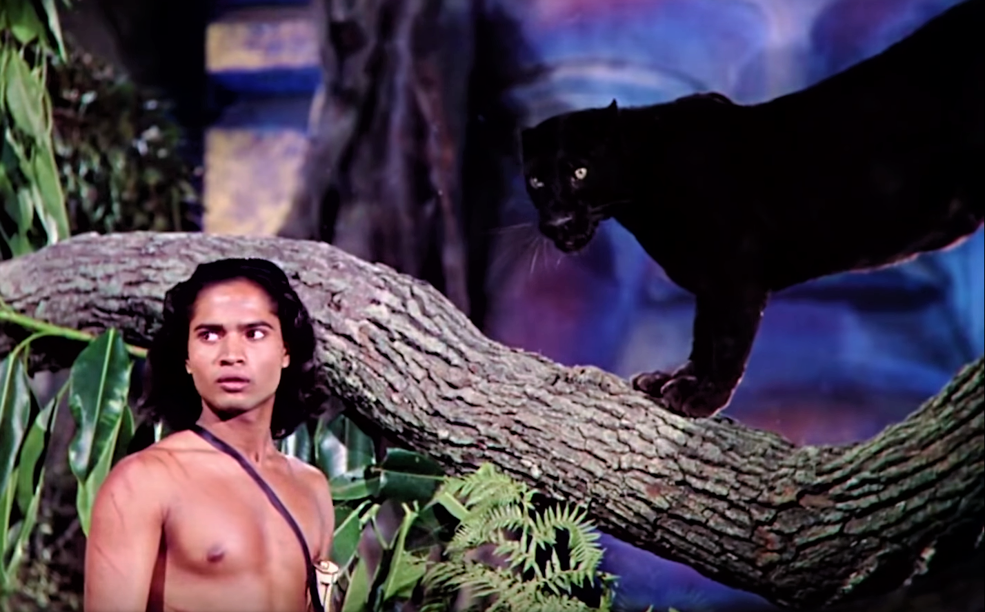 Bagheera and Mowgli in Jungle Book - cropped screenshot